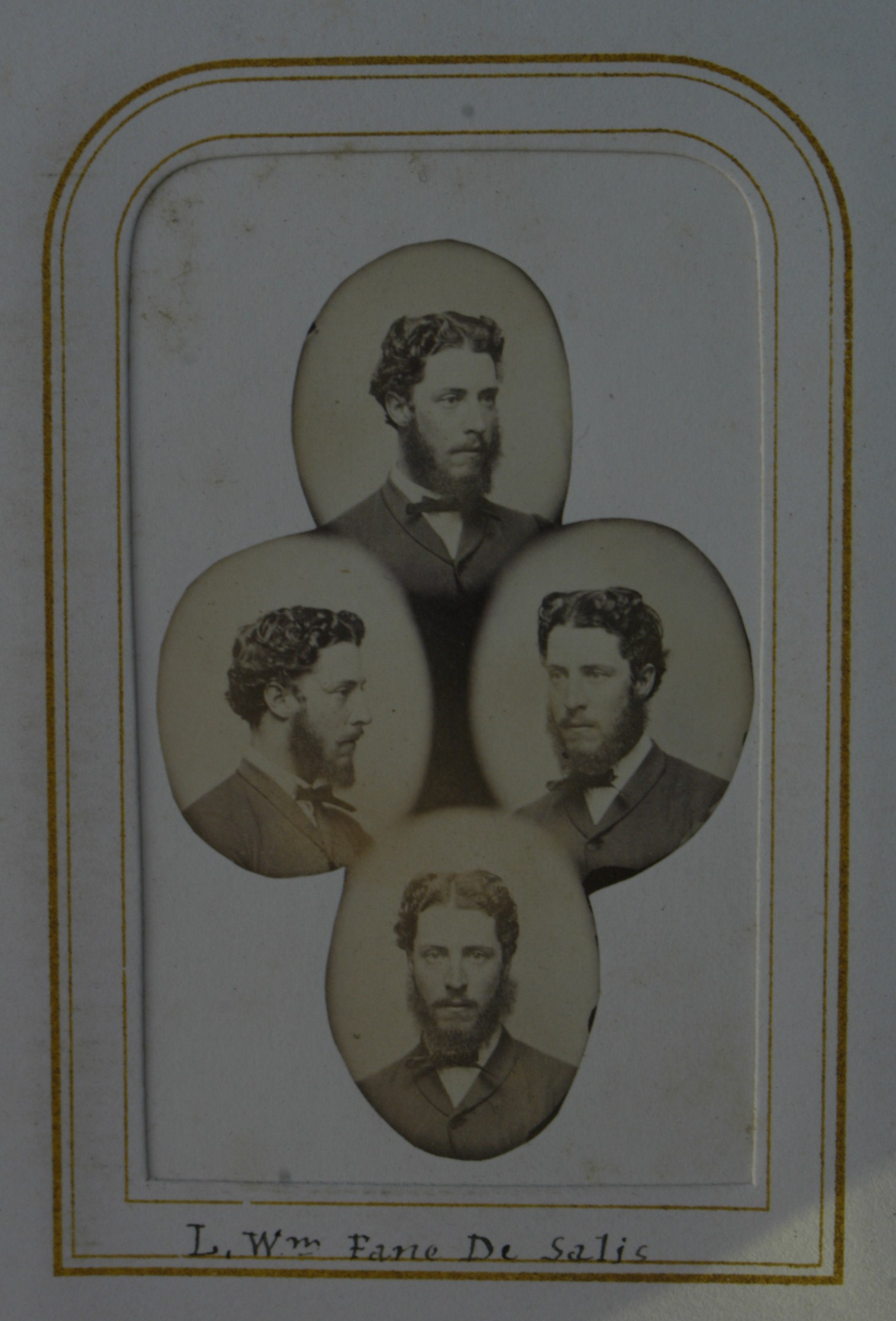 My digital photo (Rodolph (talk) 23:20, 22 May 2014 (UTC)) of a collage of photos (probably by Emily Fane de Salis) of Leopold William Jerome Fane de Salis (1845-1930) of NSW.